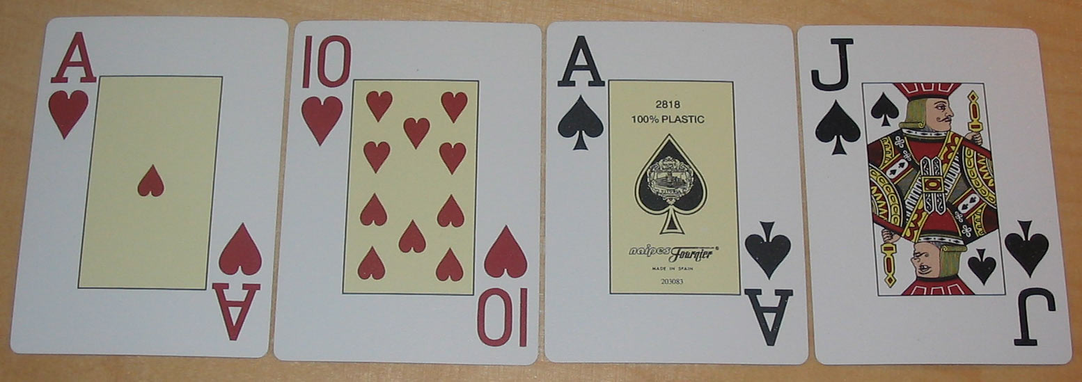 One of the best starting hand in Omaha hold 'em